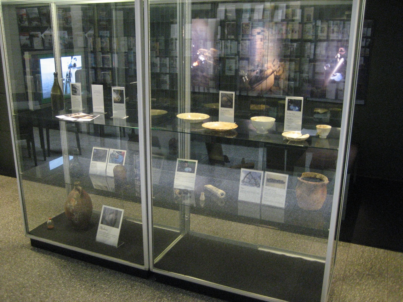 Ålands museum shipwreck display